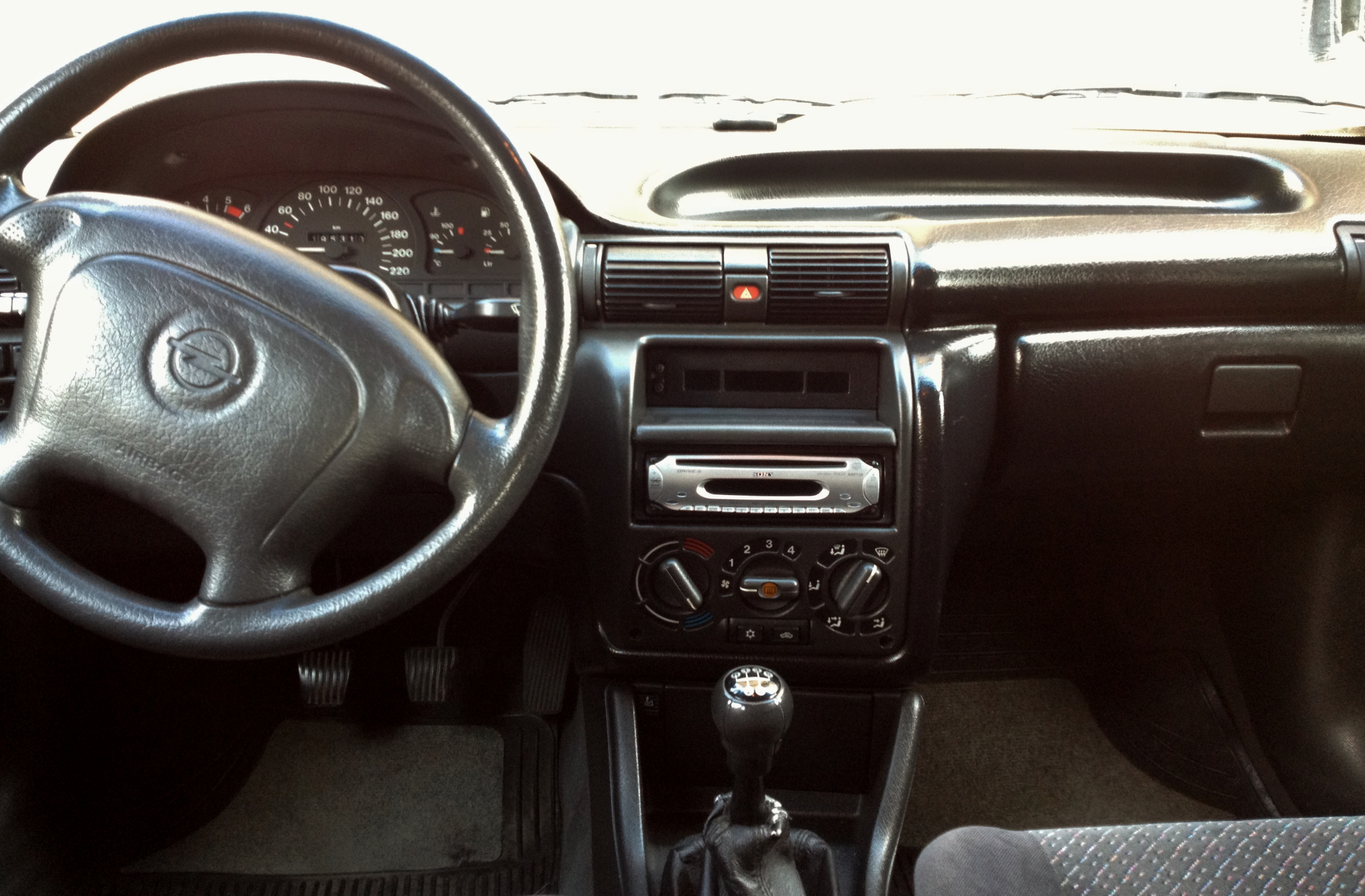 Opel Astra F Caravan 1.7 TDS Club interior